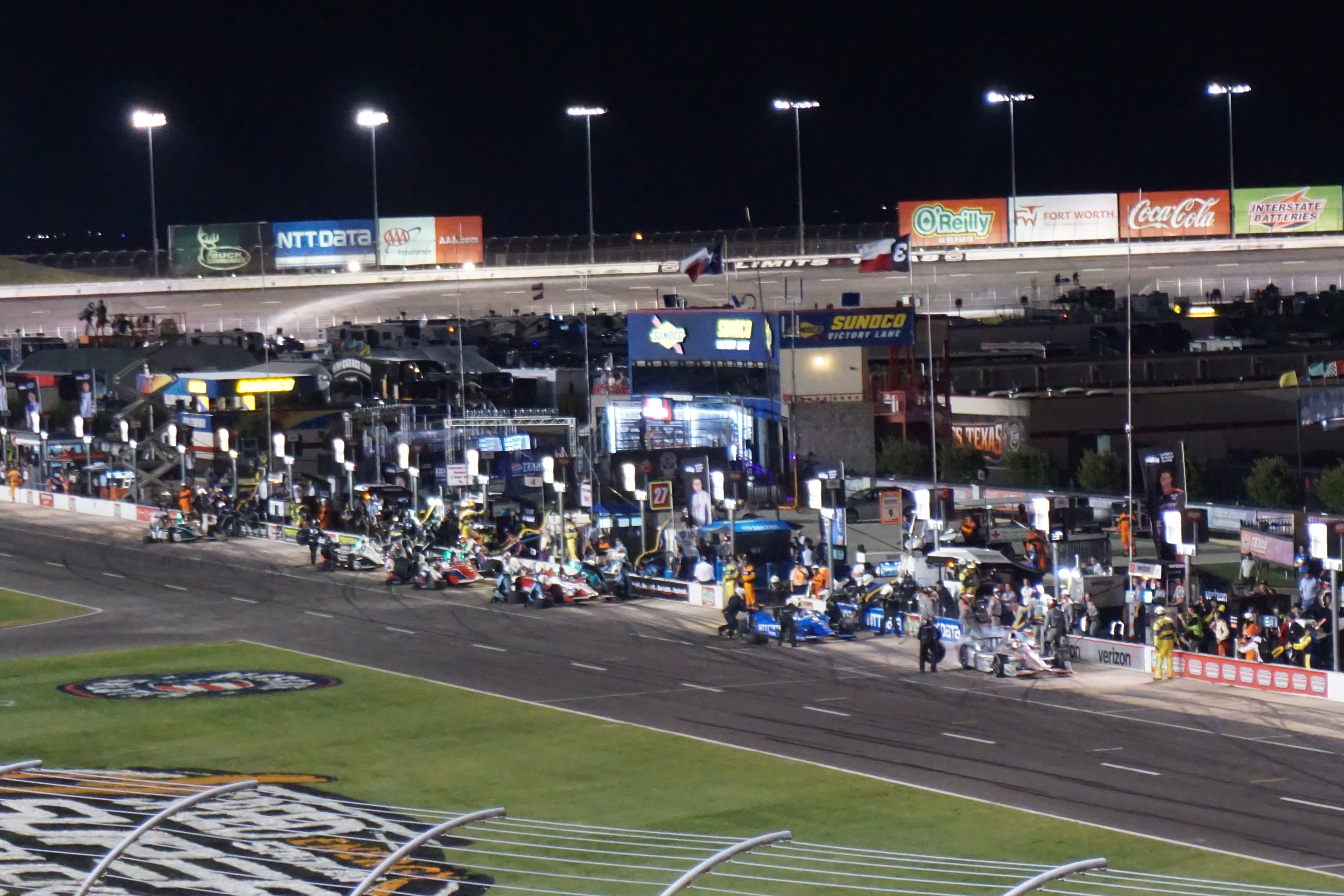 Pit stops during the 2017 Rainguard Water Sealers 600 at Texas Motor Speedway in Fort Worth, Texas (United States).